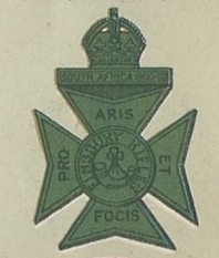 Cap badge of the Finsbury Rifles about 1941